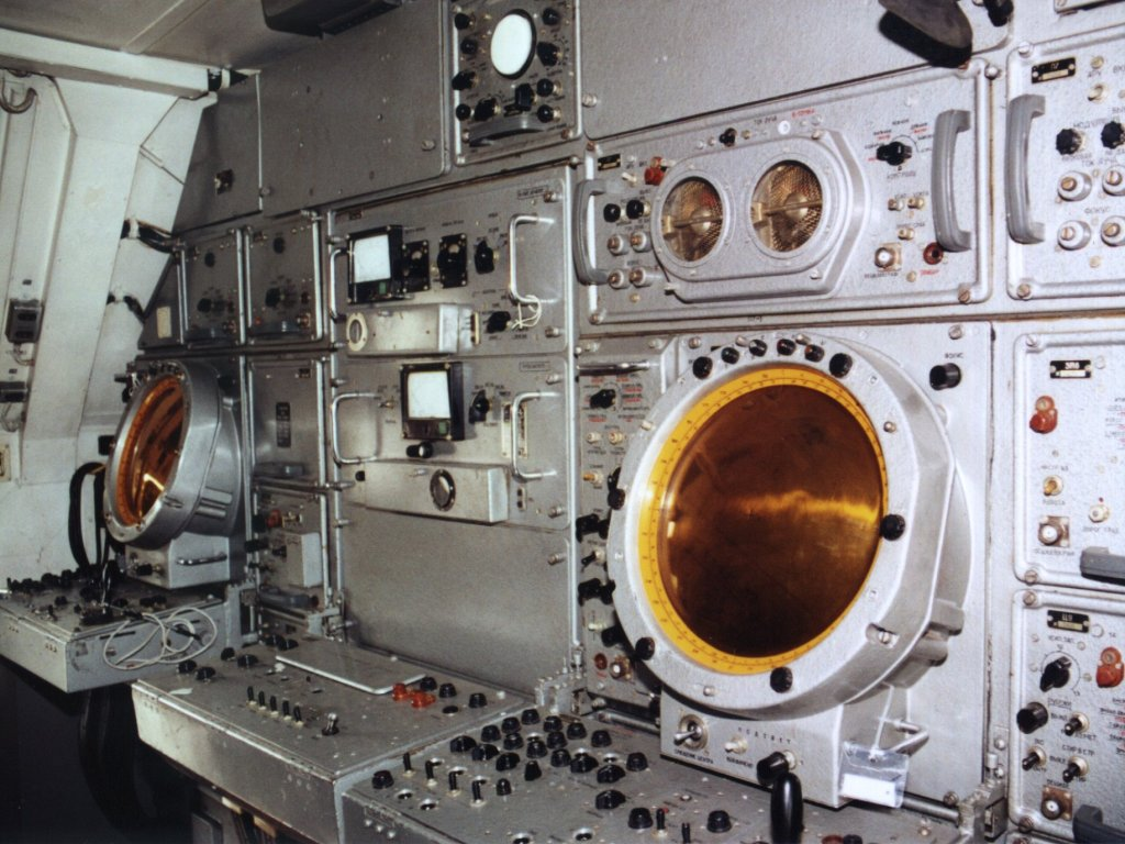 Radar scopes of the P-40 "Long Track"